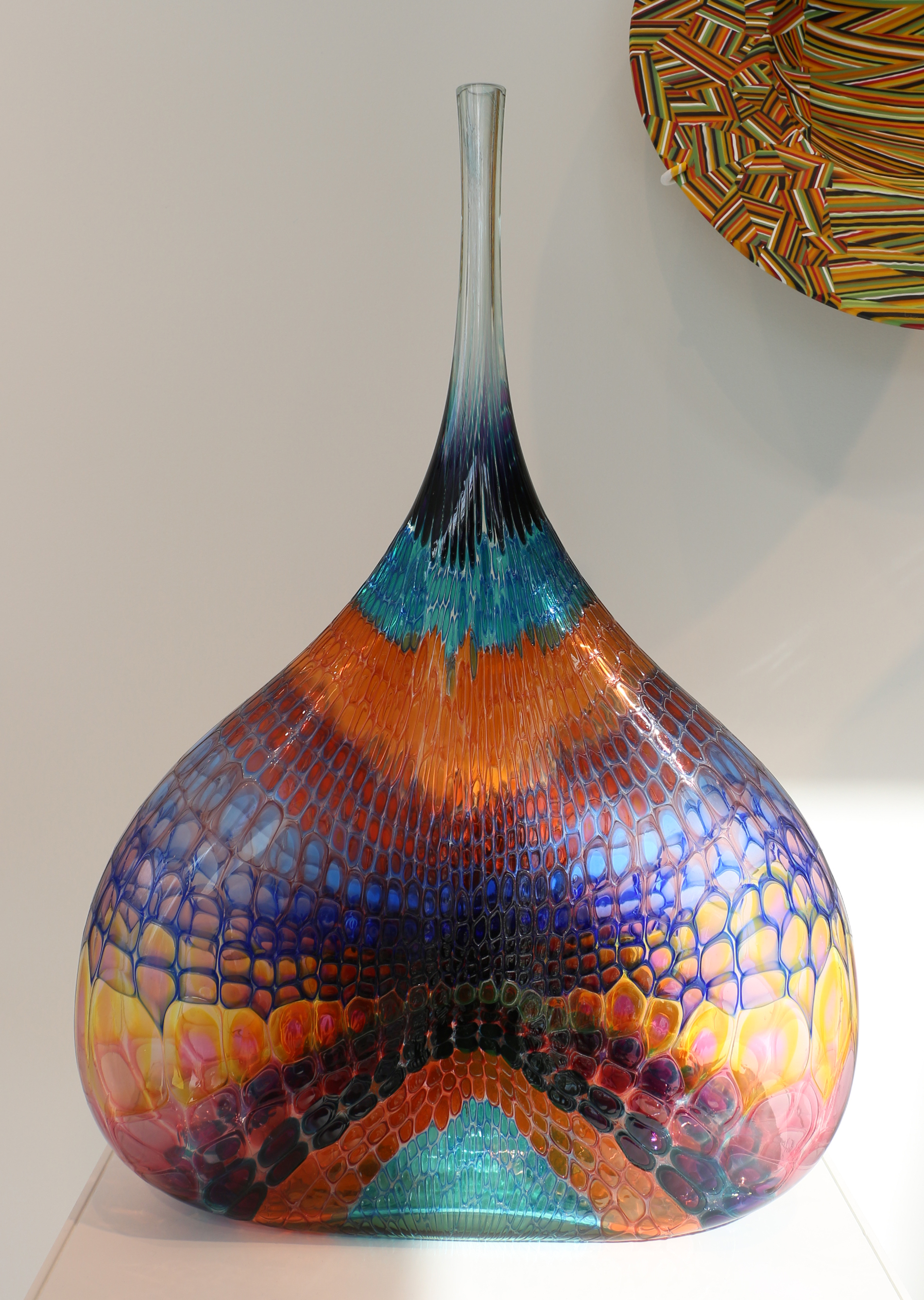 Glassware in the Speed Art Museum